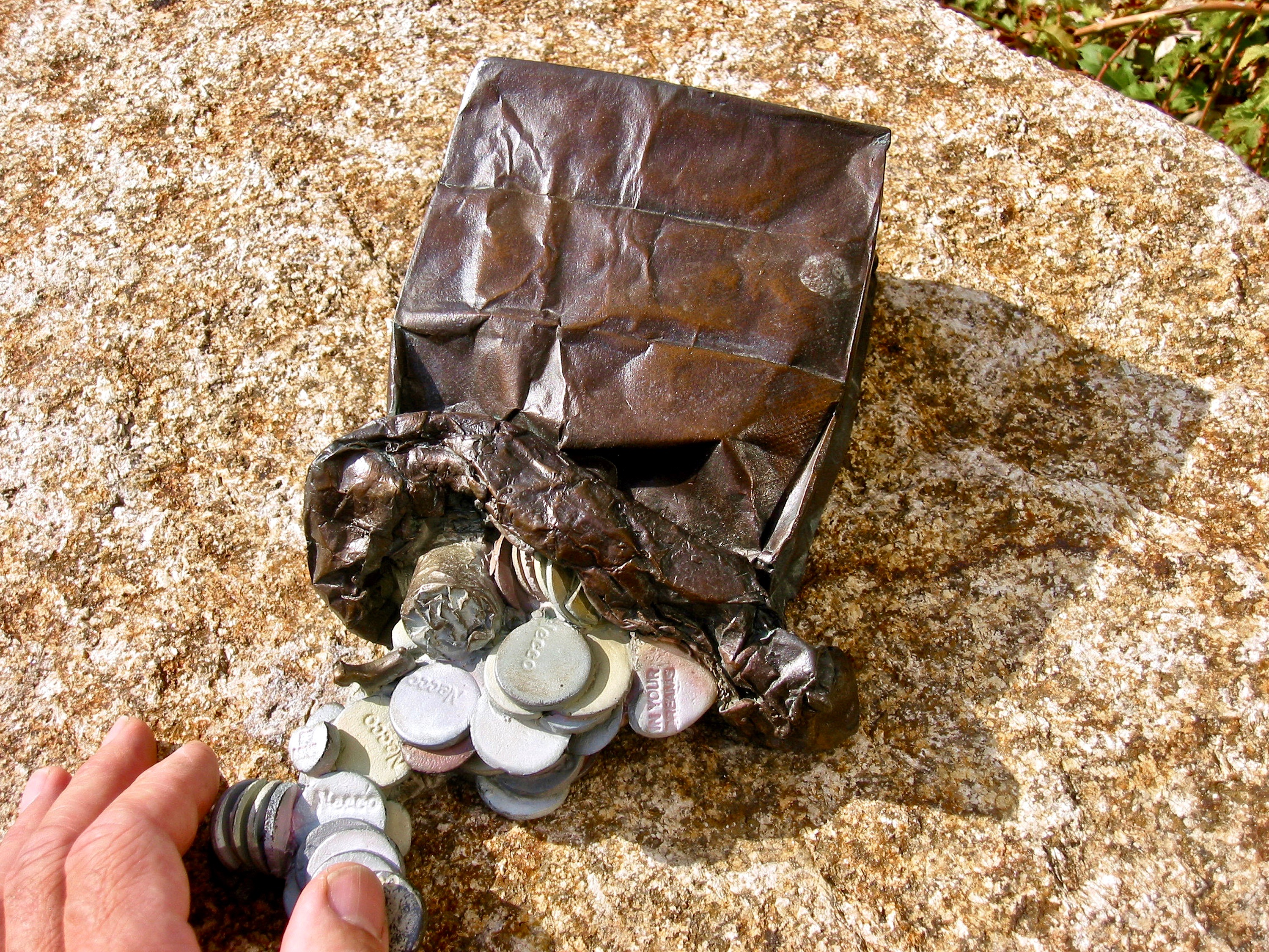 Cast bronze Memorial Sculpture of NECCO Wafers and Conversation Hearts, located near the site of a 20th Century NECCO factory. Memorial placed on a boulder in the landscape of University Park at MIT, in Cambridge, Massachusetts.